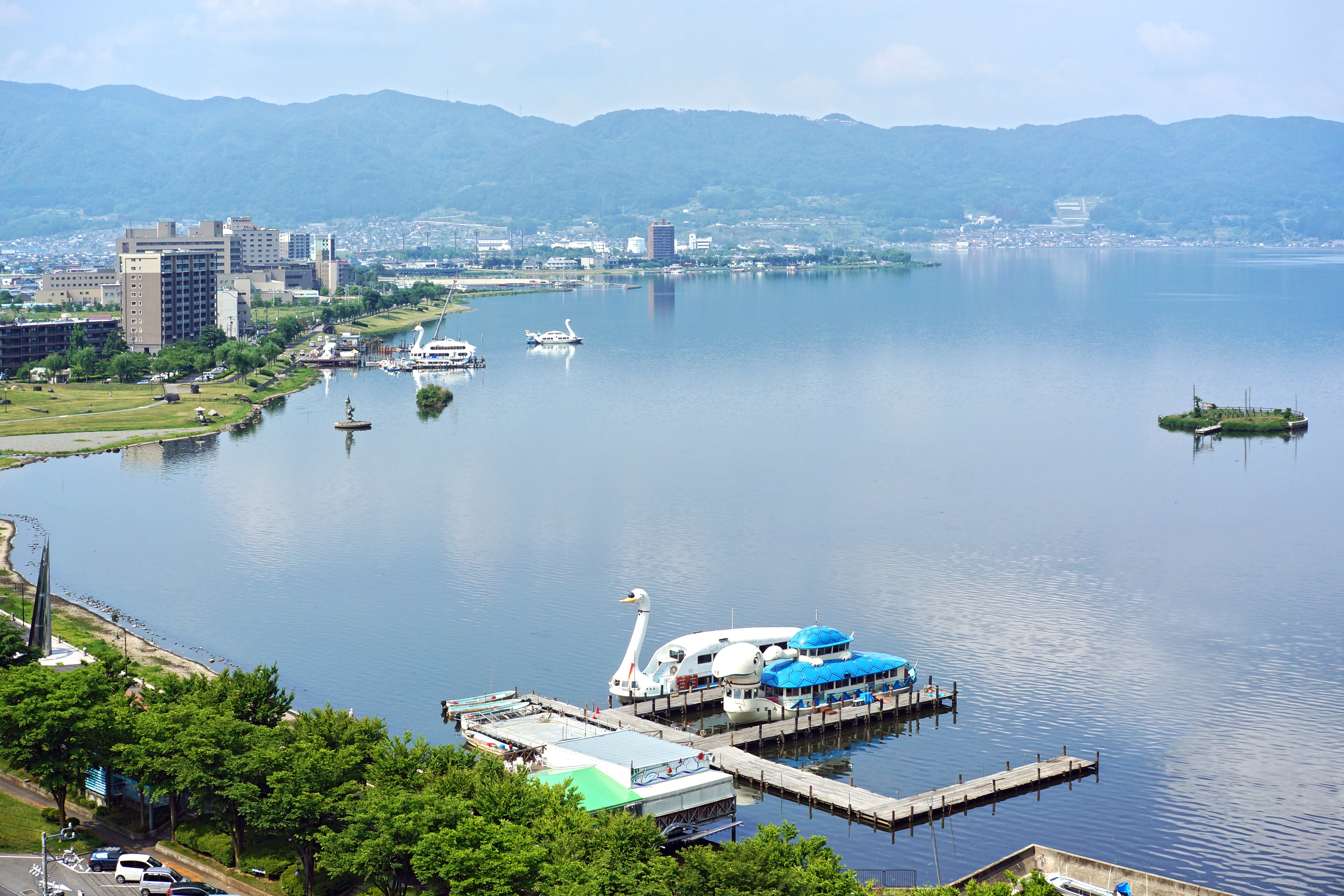 Kamisuwa Onsen in Suwa, Nagano prefecture, Japan.